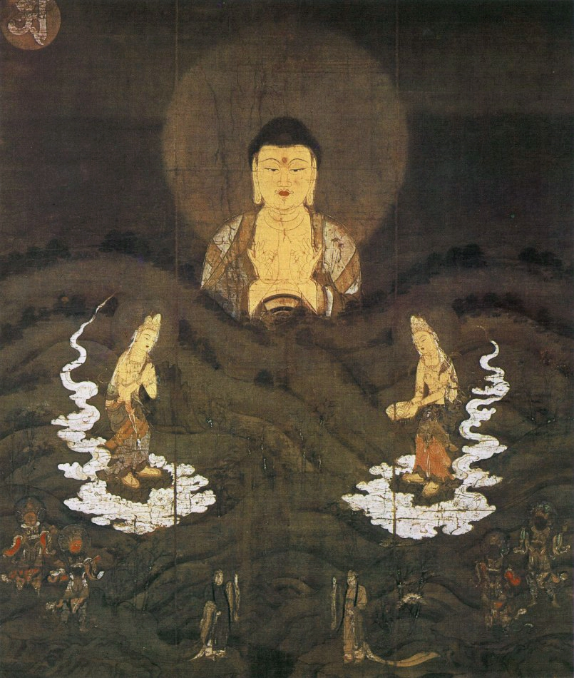 Descent of Amitabha over the Mountain (絹本著色山越阿弥陀図, kenpon chakushoku yamagoe amidazu). Hanging scroll. Color on silk. Located at Zenrin-ji(a.k.a. Eikan-dō), Kyoto, Japan.